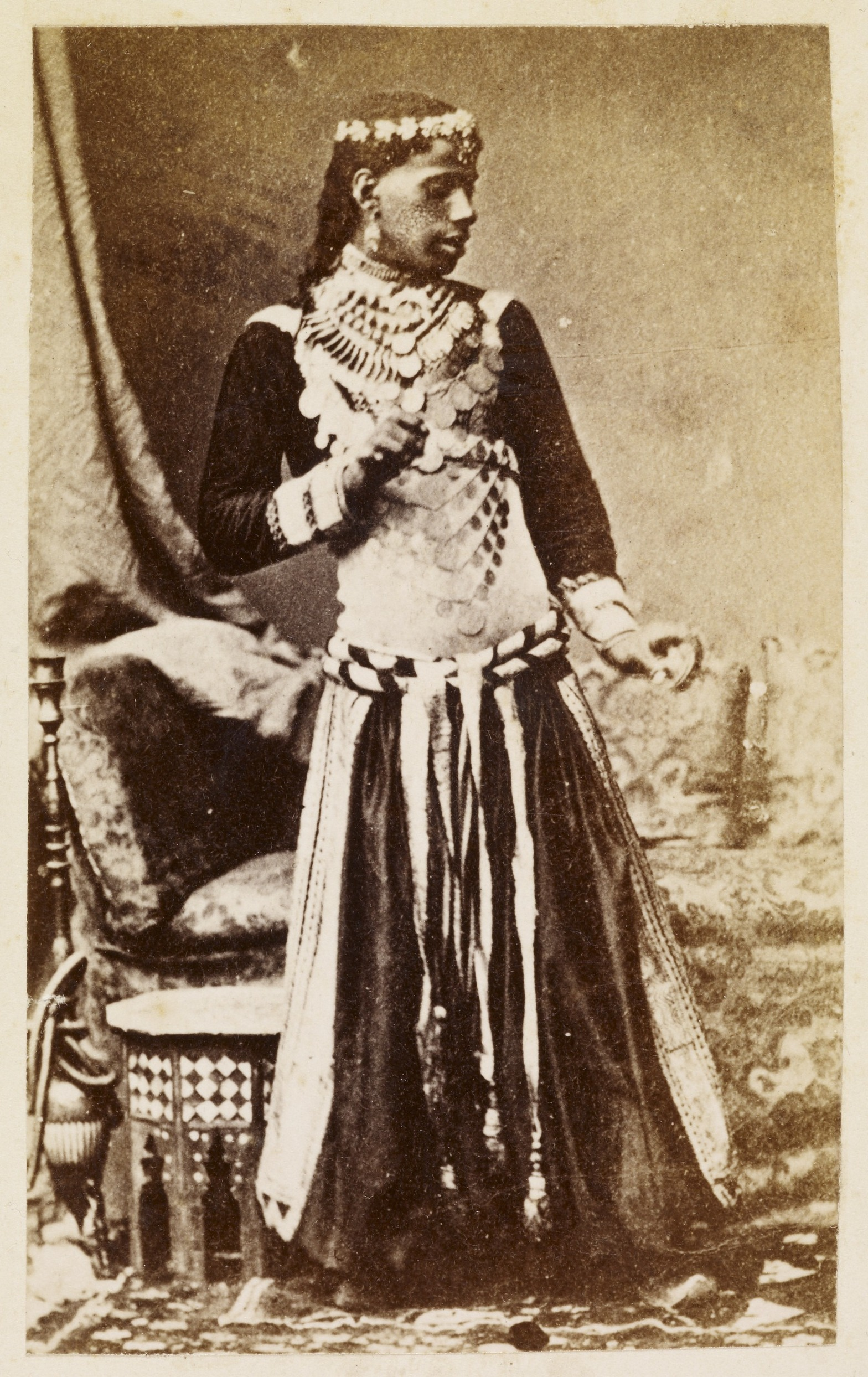 An Egyptian male dancer dressed in female costume (see khawal) standing in front of a divan.